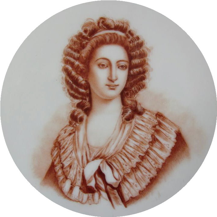 Portrait of Marie-Maurille de Sombreuil (porcelain plate)